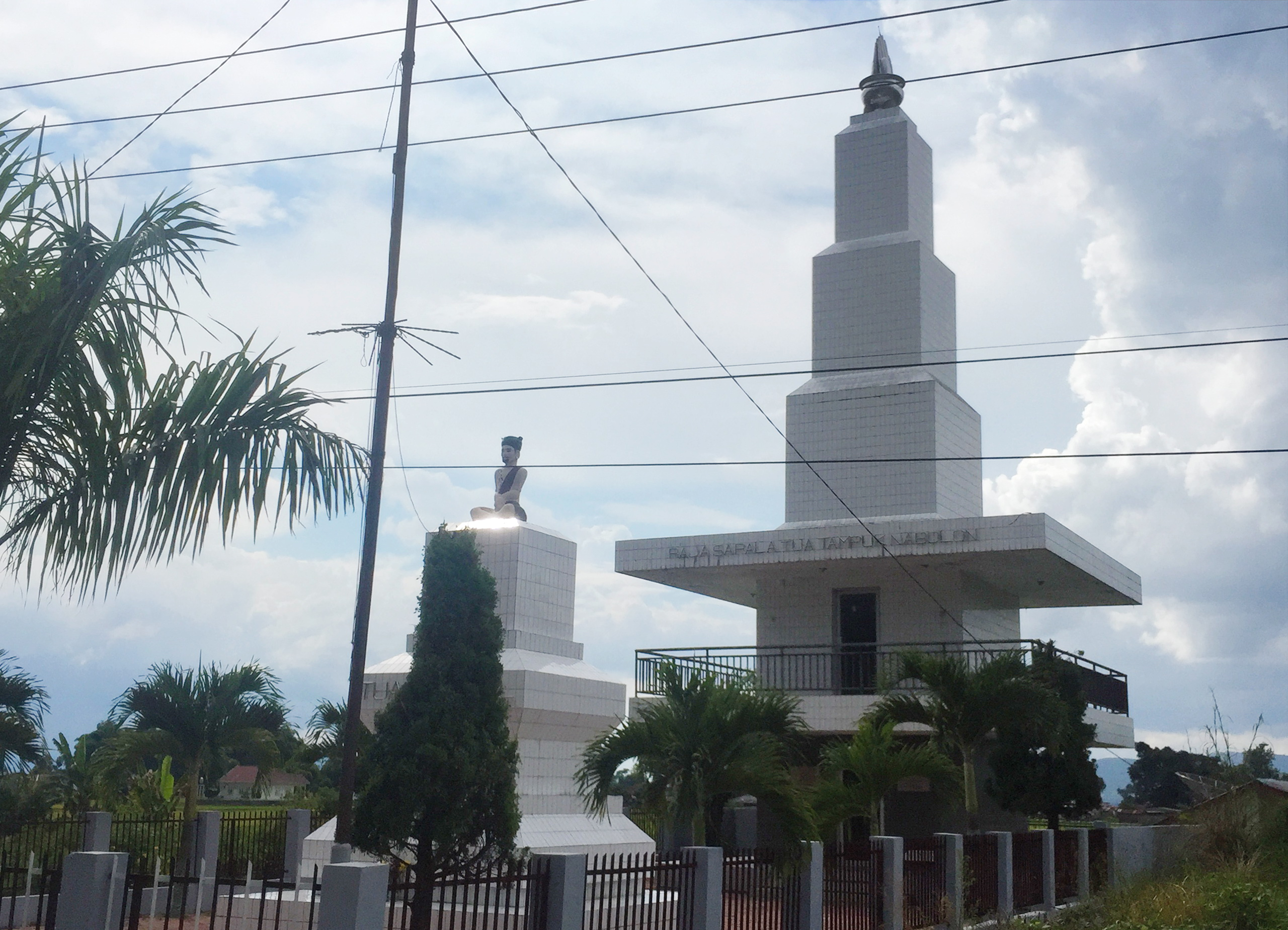 Monument of Tuan Sihubil & Sapala Tua Tampuk Nabolon (Tampubolon) clan in Balige, Toba Samosir